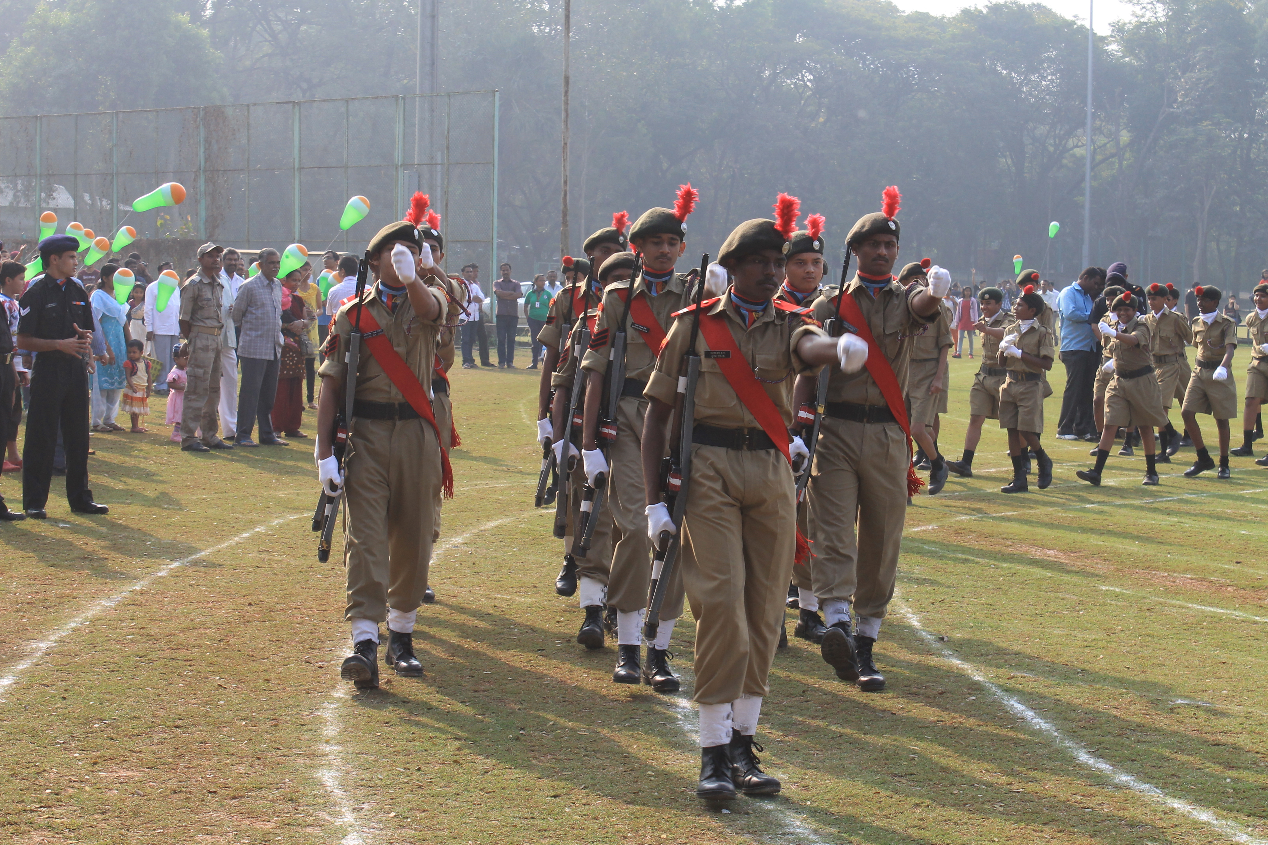 NCC parade at Republic day 2015 by SD cadets held at IIT Bombay .Cadets are marching with dummy 7.62 SLR